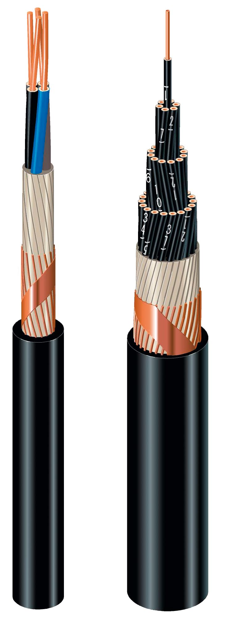 Low voltage cable